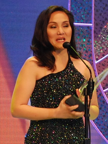 Gladys Reyes at the Star Awards as MOMents receive the Best Celebrity Talk Show (25th PMPC Star Awards for TV) (2011)